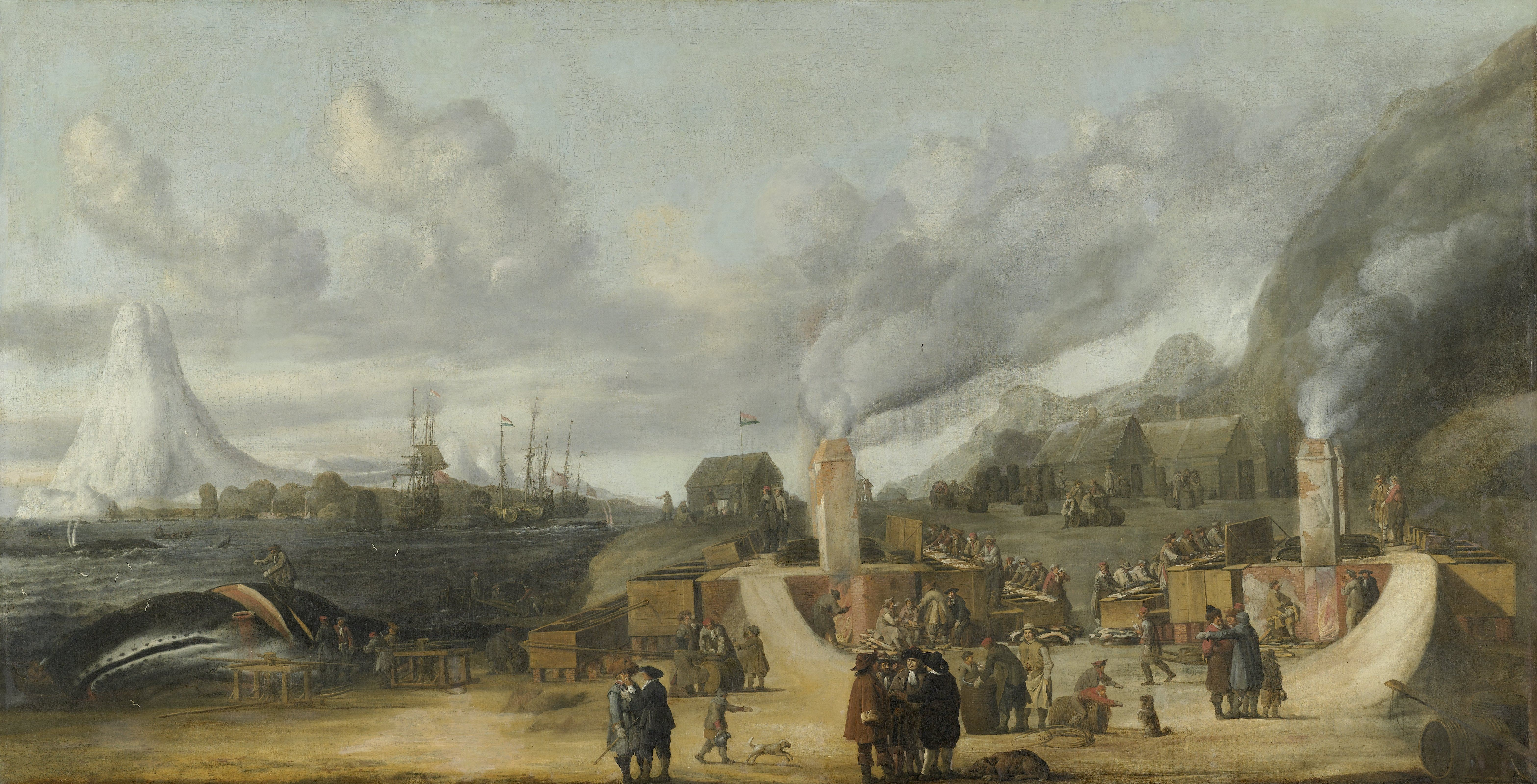 The whale-oil refinery of the Amsterdam chamber of the Greenland Company on Amsterdam Island off the coast of Spitsbergen. To the left the sea with whales and ships. To the right various installations with smoking chimneys and large groups of workmen.